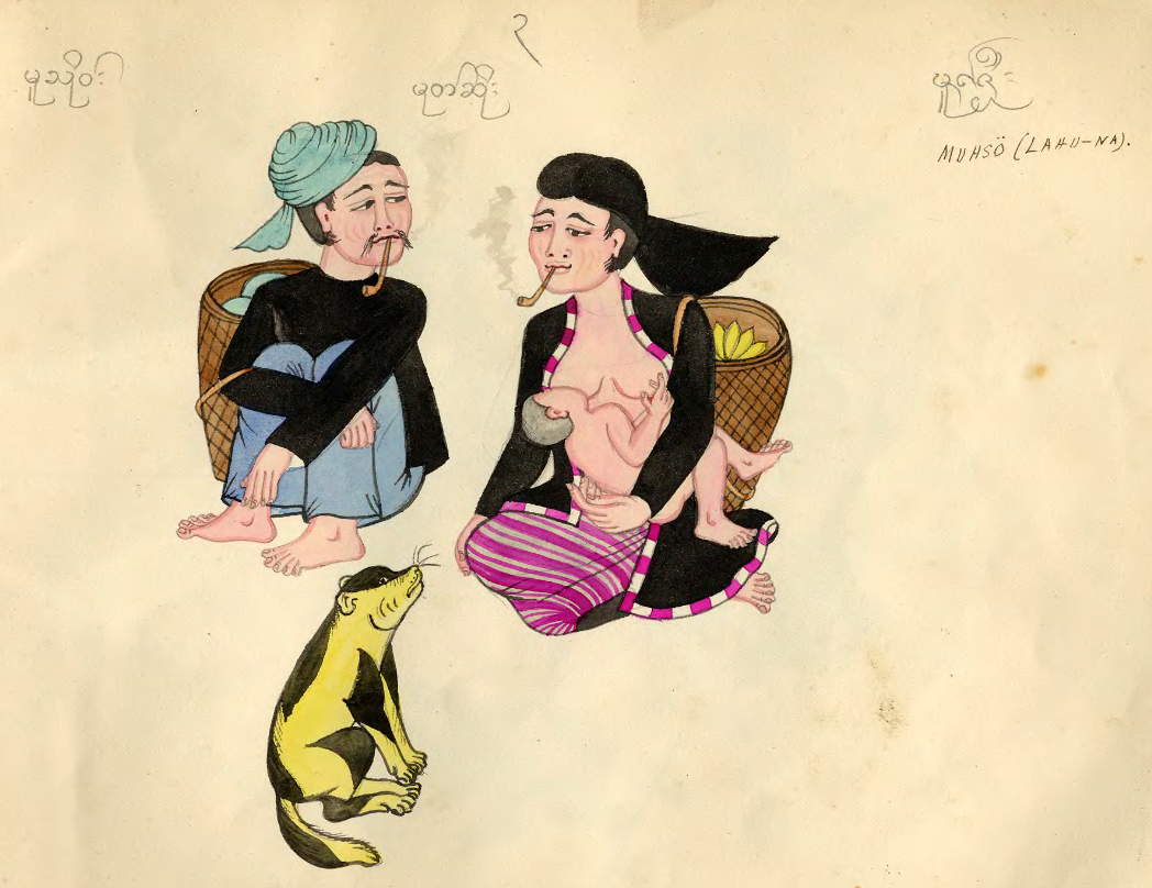 Lahu (Lahu Na, Black Lahu) tribe from a Burmese handpainted color manuscript